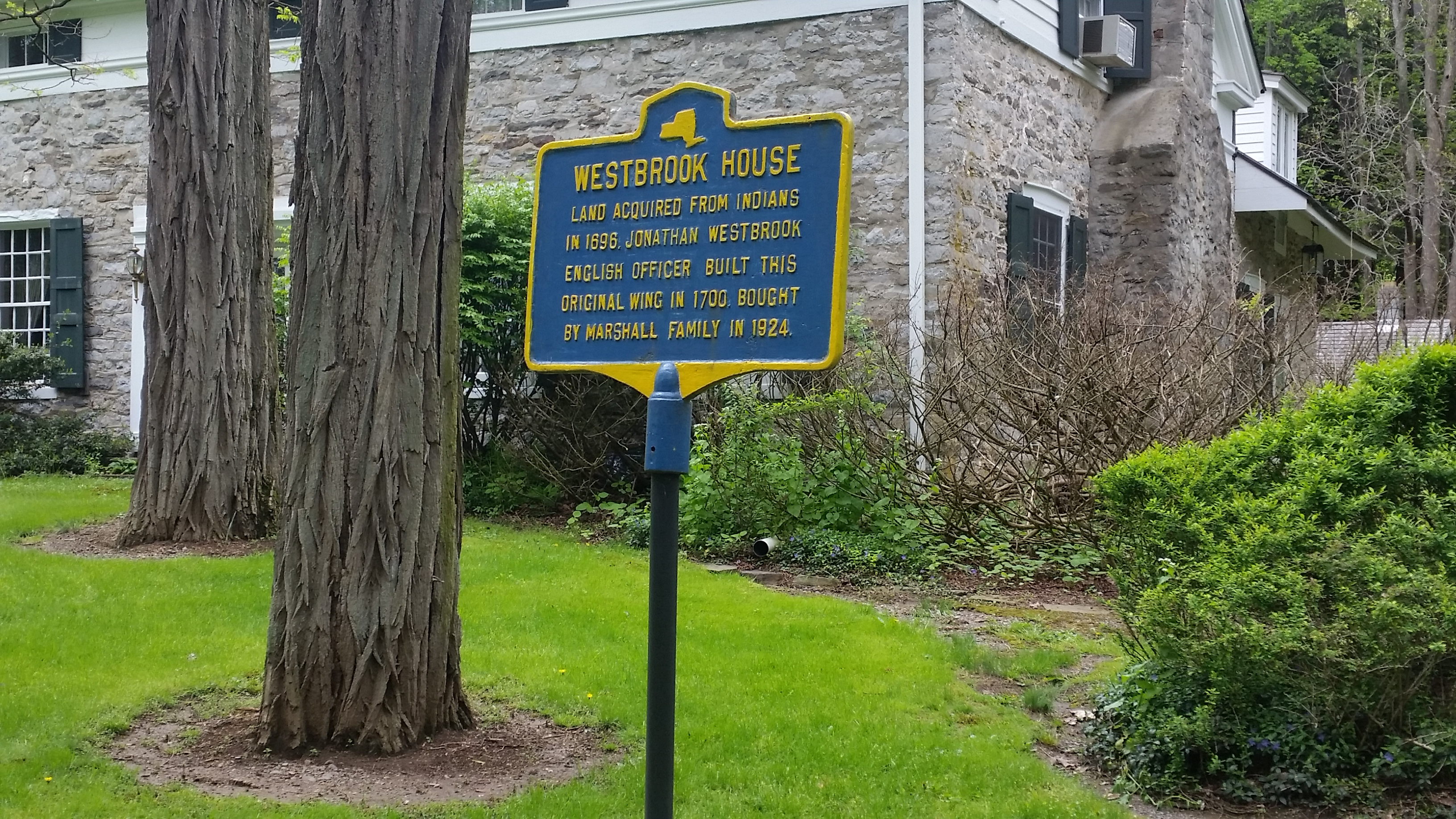 NY State historical marker for the Westbrook house that the Marshall family owns